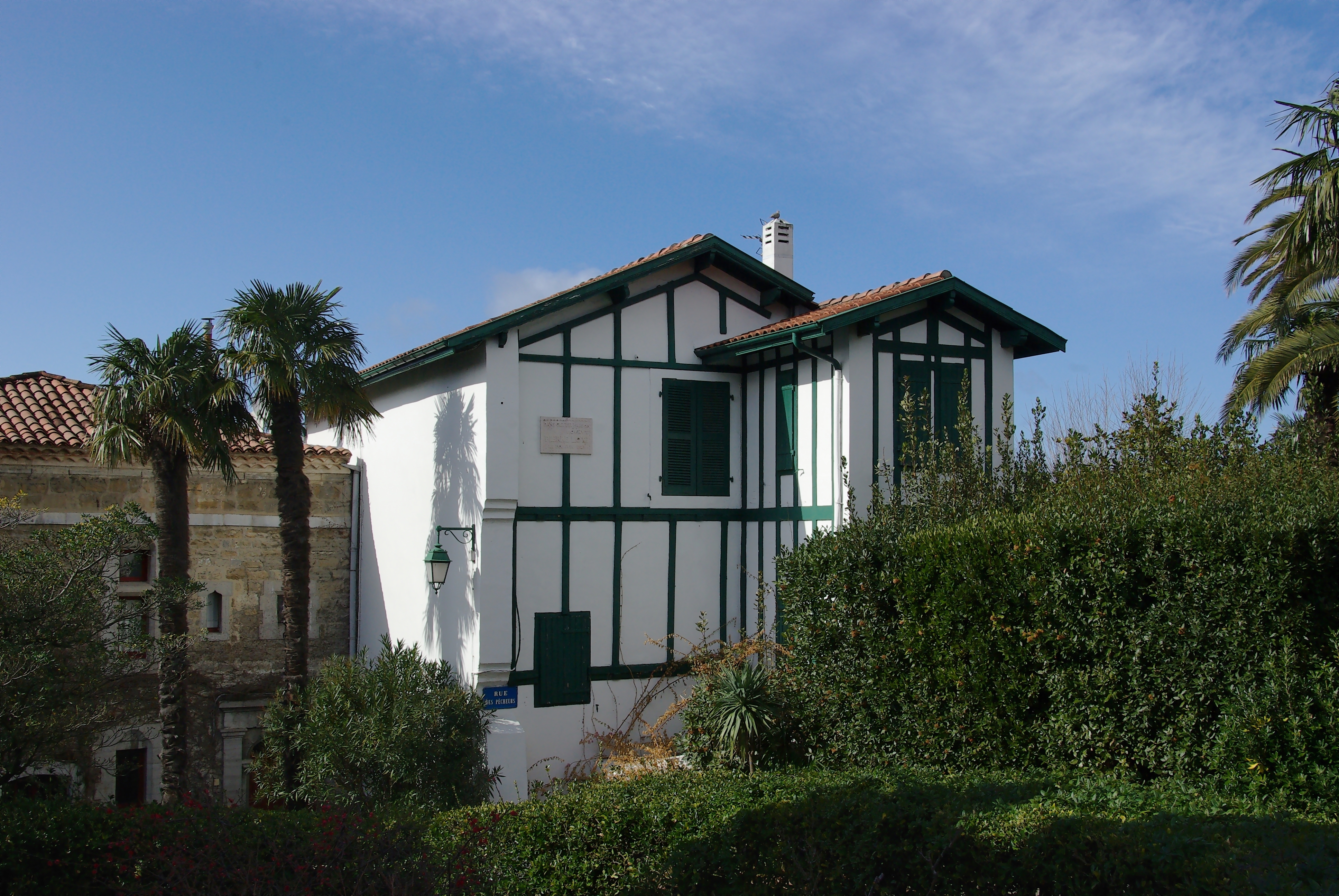 Pierre Loti's villa, where the writer died in 1923, Hendaye, France.